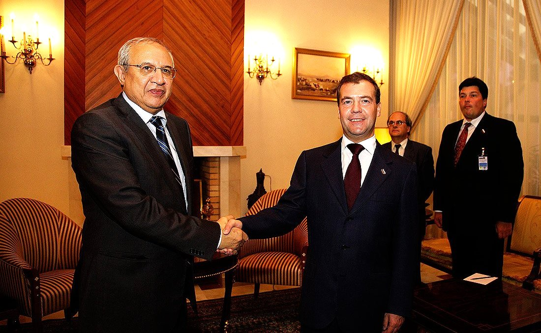 With Speaker of Algerian National People's Assembly Abdelaziz Ziari.